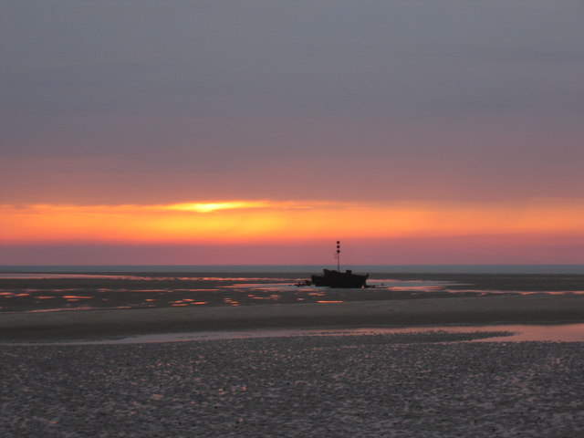 The Wreck (SS Vina) from Scolt Head Island A photograph at sunset from the Far Point on Scolt Head Island showing the wreck of the SS Vina. The SS Vina was wrecked during the Second World War (1944?) whilst being towed into position for military target practice. The photograph was taken on 12th September 2006 at low-tide whilst surveying the spit features that constitute Far Point - the crest of one of these features can be seen in the foreground. Information about the SS Vina and other Norfolk wrecks can be found here